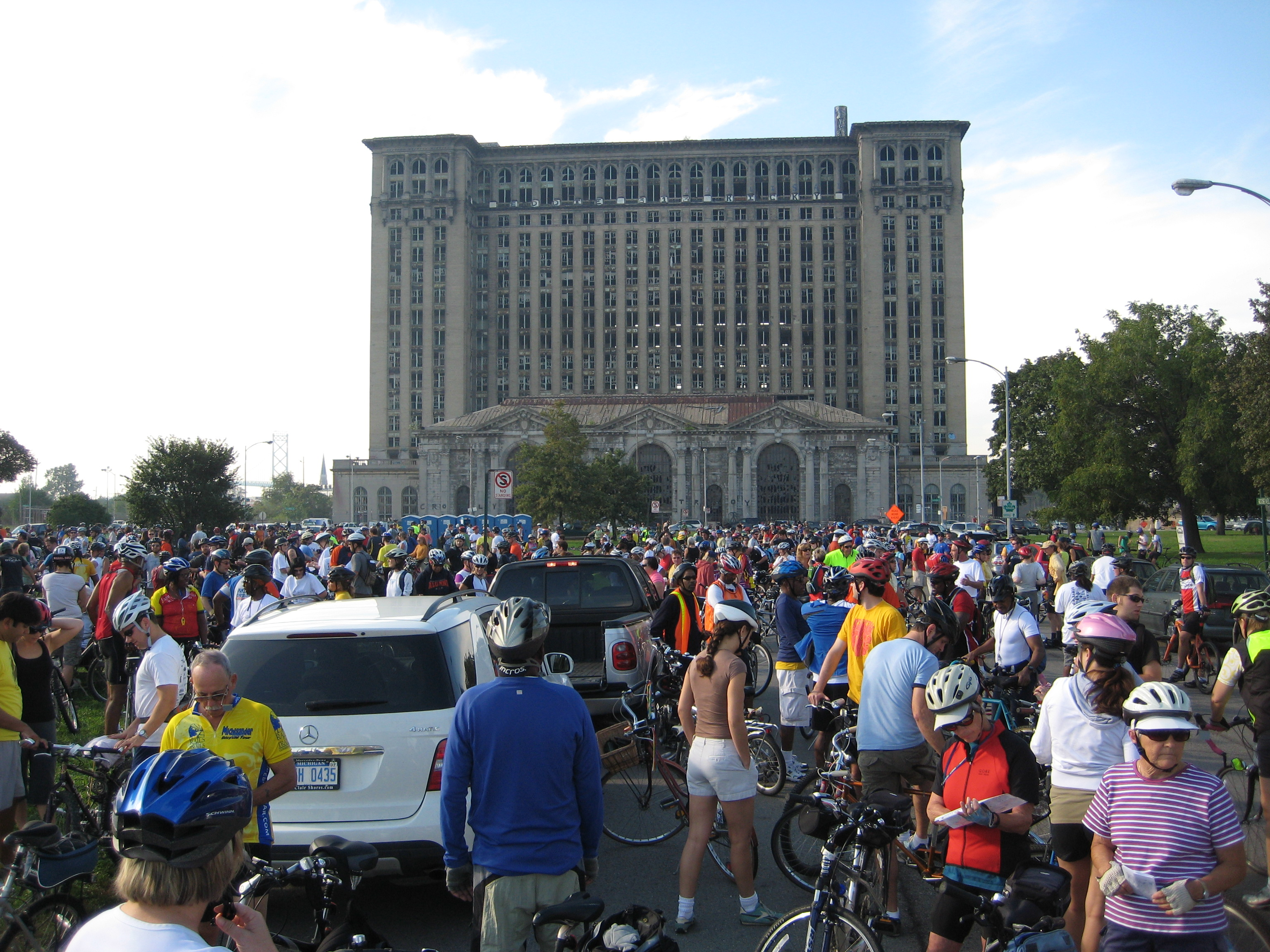 2008 Tour de Troit bicycle ride in Detroit